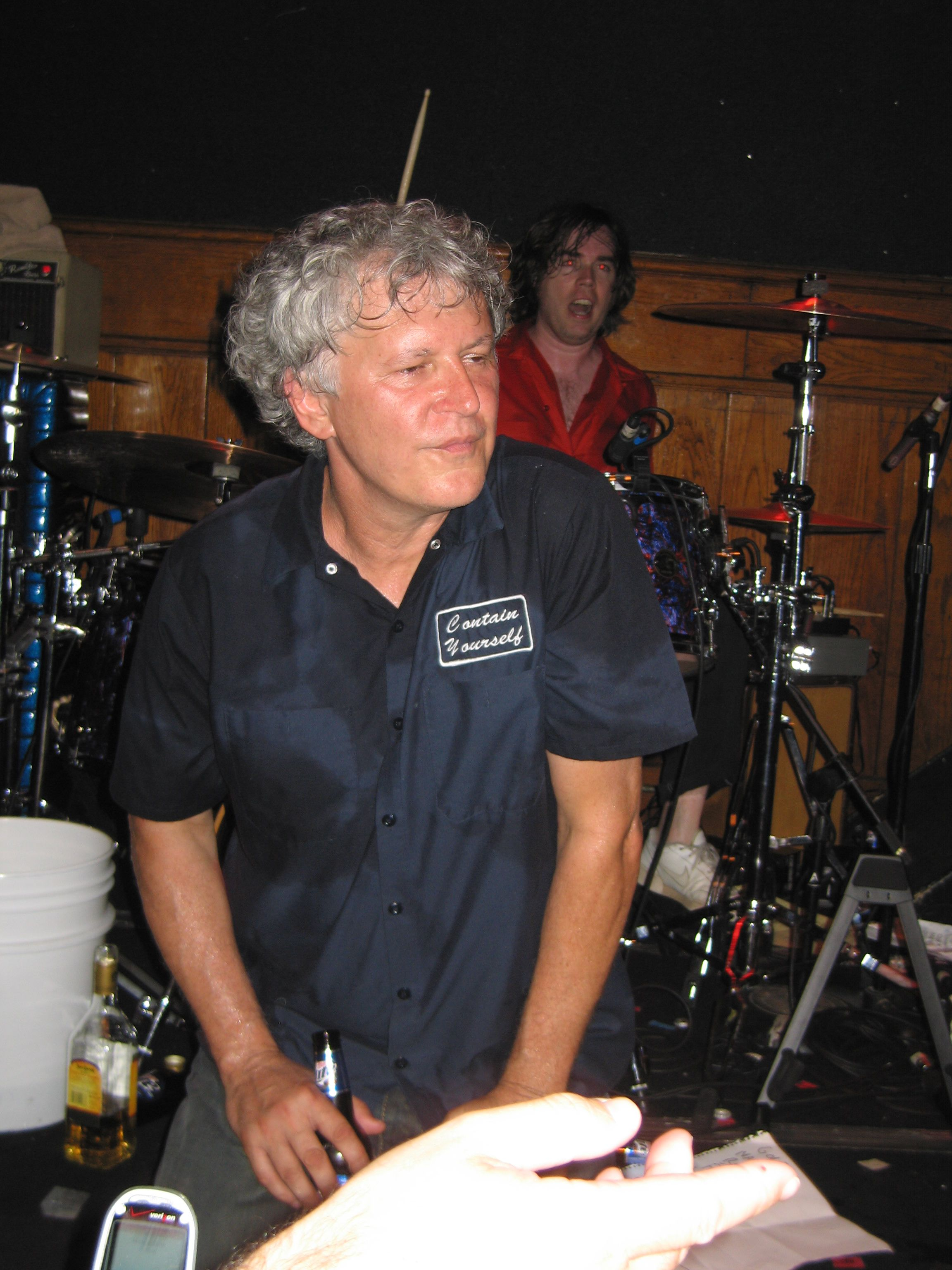 Robbert Pollard performing in Chicago.chicago062006 109